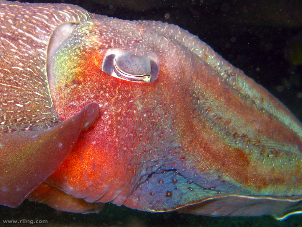 An Australian Giant Cuttlefish (Sepia apama). Fairy Bower, Manly, NSW